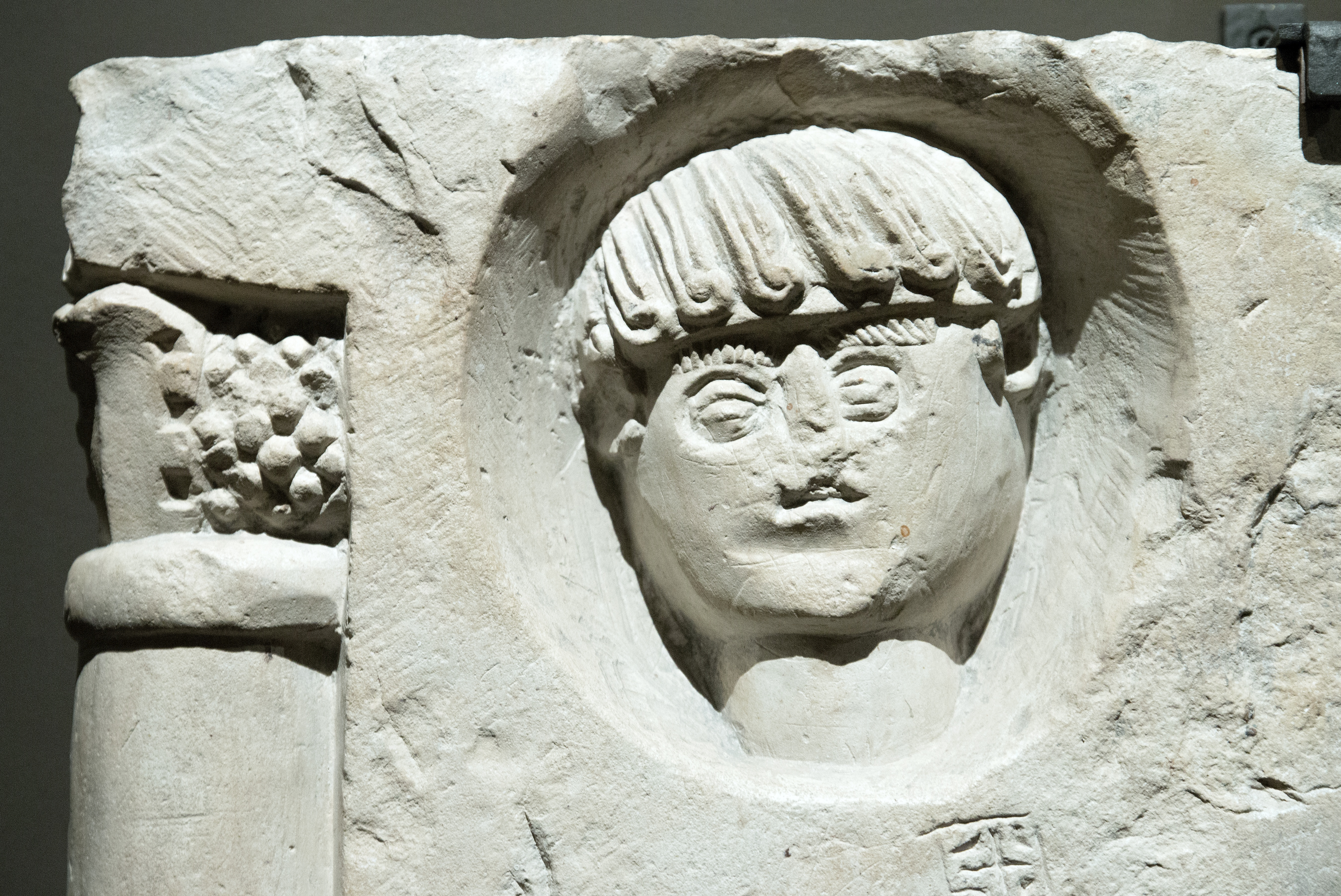 Panel with head of a man, Ostrov near Davle, Central Bohemia, 1150-11175, marlstone. Prague, The National Museum, Inv. No. H2-107148. Detail.